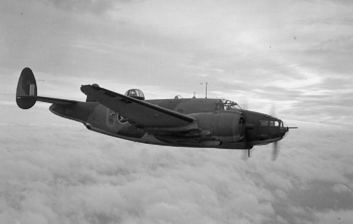 Lockheed Ventura Mark II, AE939 ‘SB-C’, of No. 464 Squadron RAAF based at Feltwell, Norfolk, in flight.